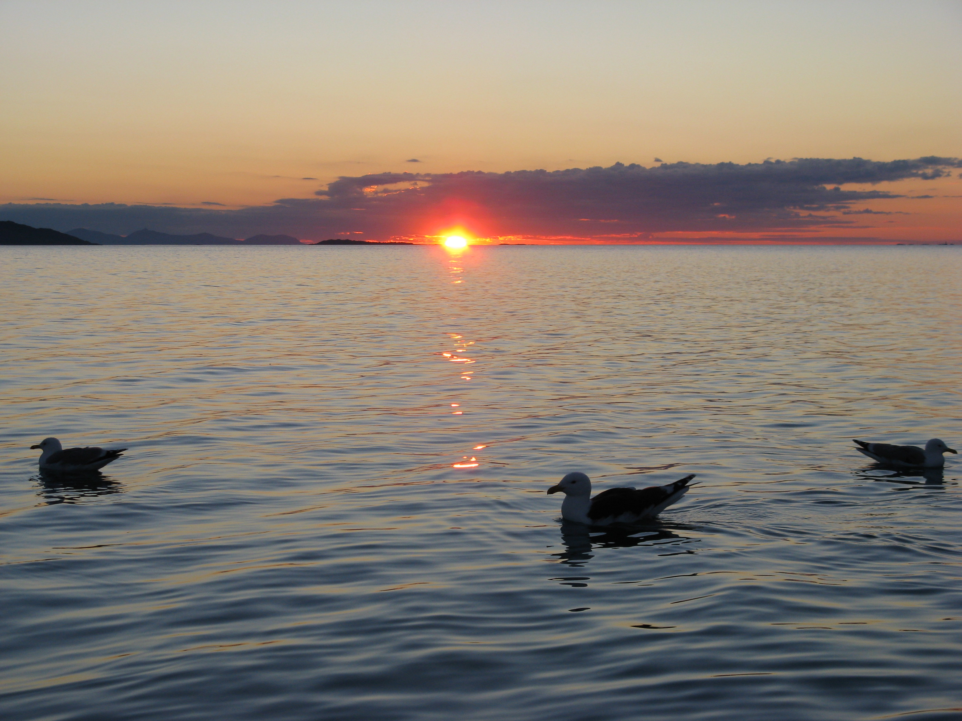 The islands Gapøyholman in Kvæfjord, Troms, Norway, divided by the midnight sun.